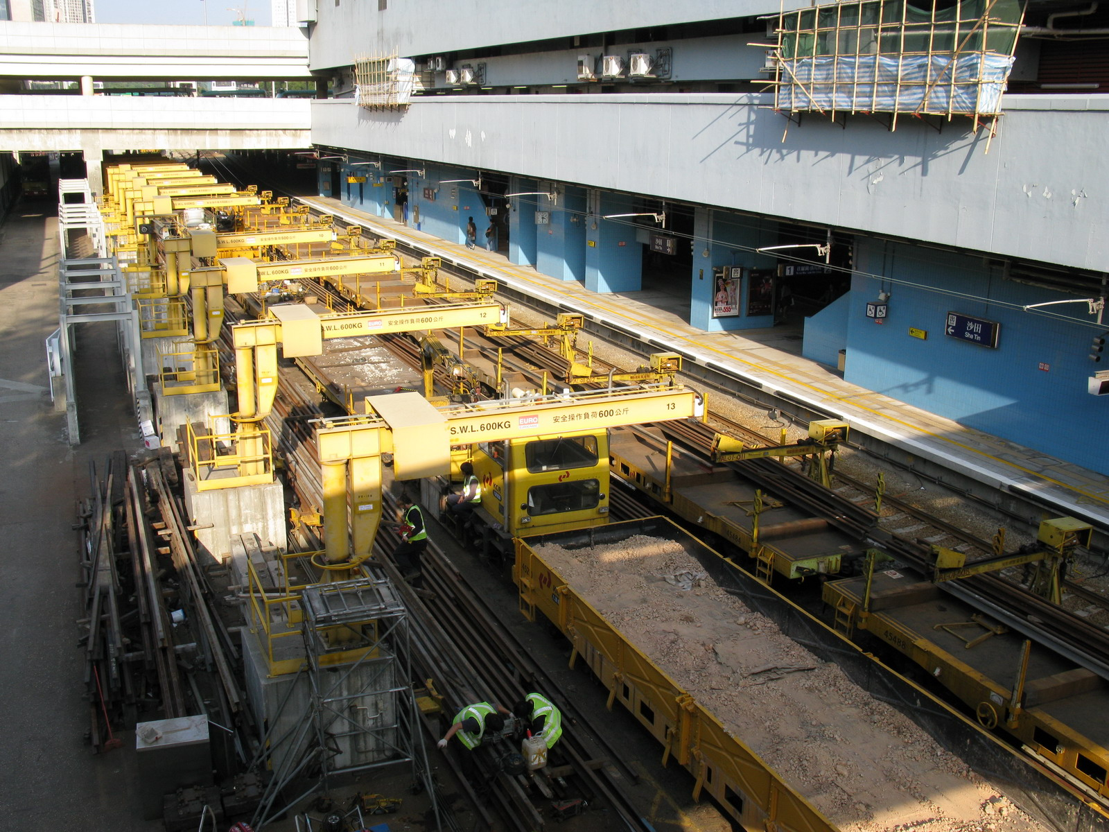 沙田站-1號月台 Platform No.1 of Sha Tin Station